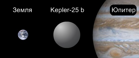 Comparative sizes of Earth, Kepler-25 b and Jupiter.